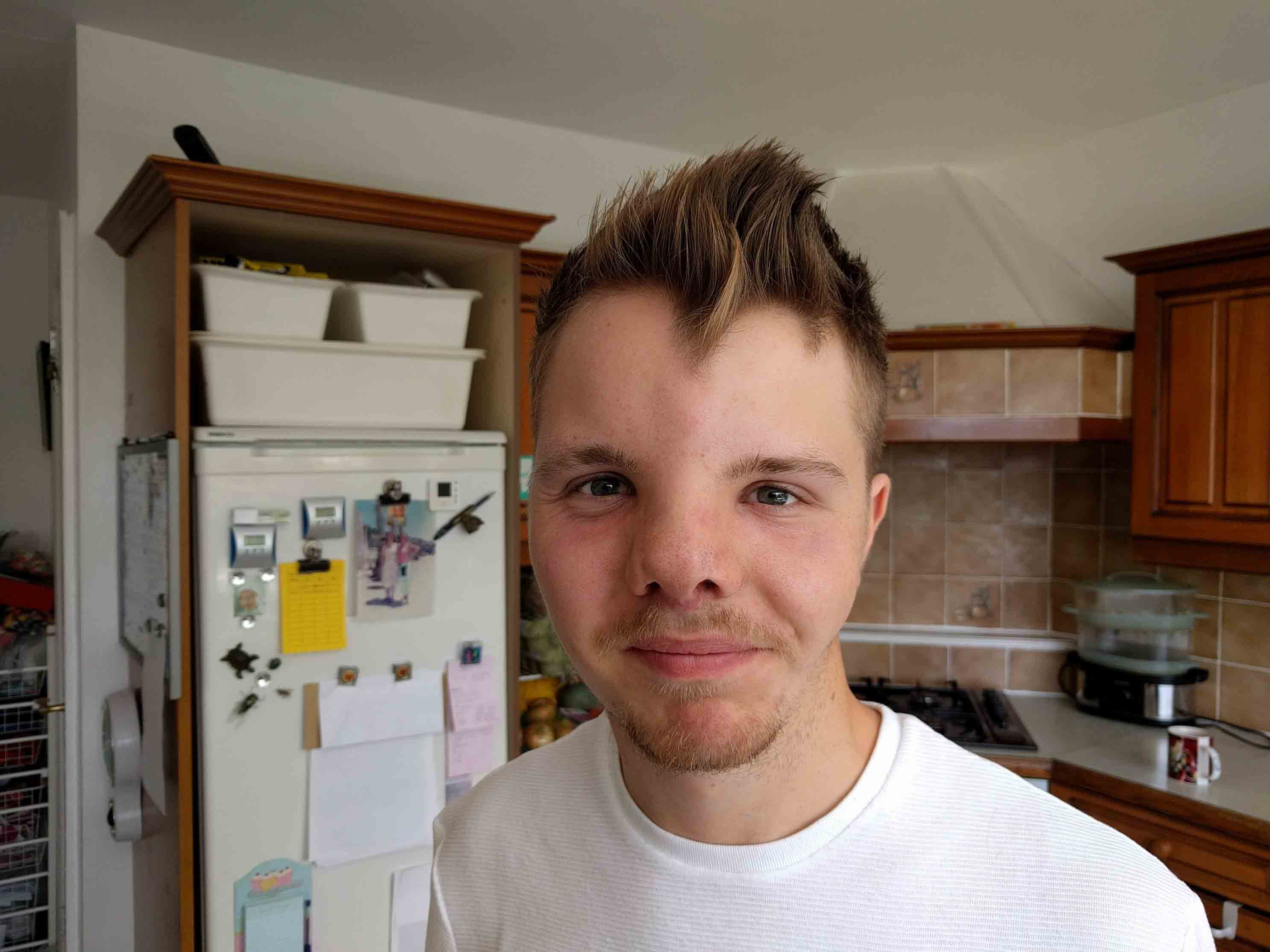 Lucas Hayward in 2016